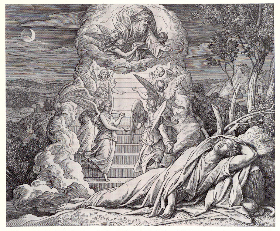 Woodcut for "Die Bibel in Bildern", 1860.